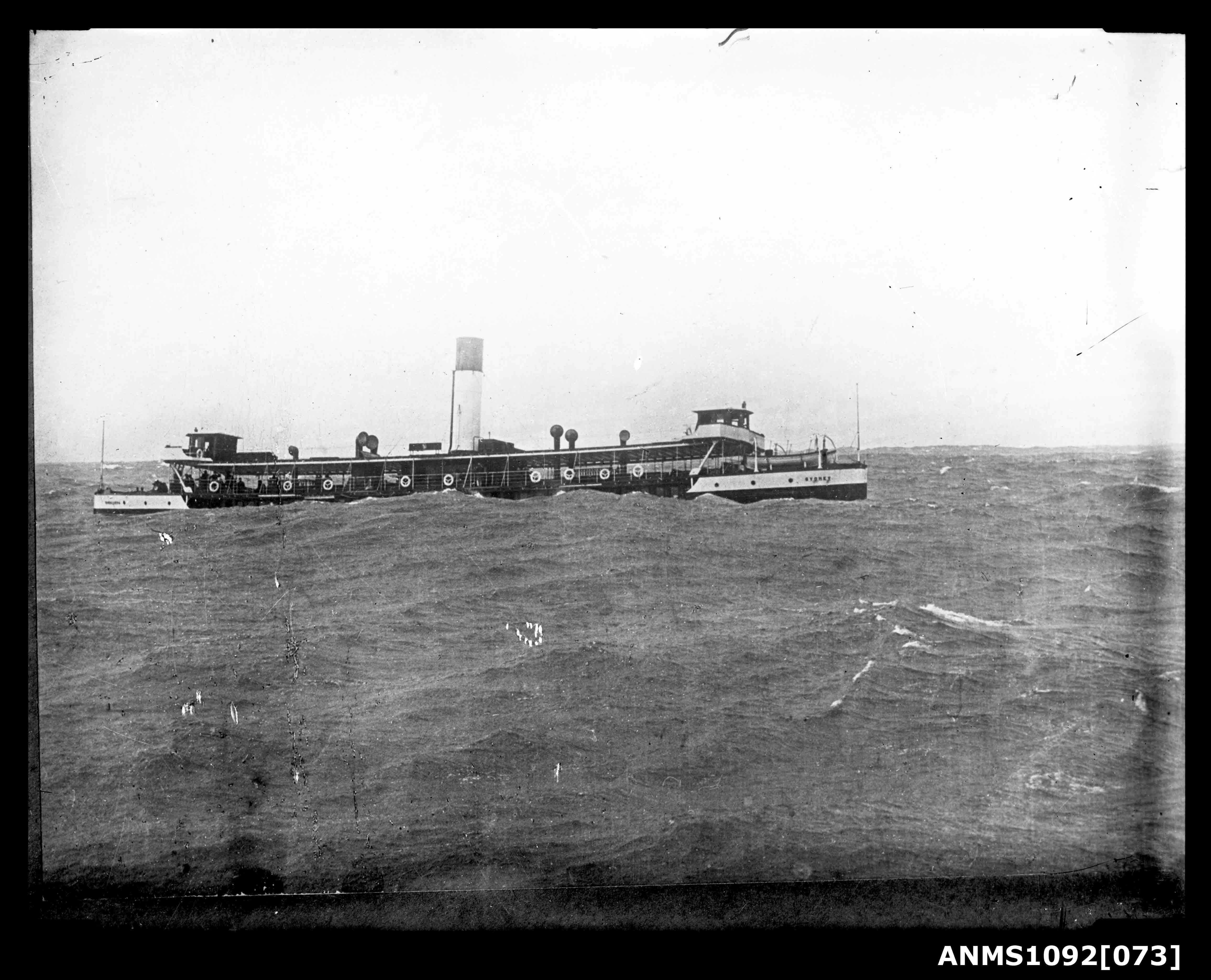 This photo is part of the Australian National Maritime Museum’s William Hall collection. The Hall collection combines photographs from both William J Hall and his father William Frederick Hall. The images provide an important pictorial record of recreational boating in Sydney Harbour, from the 1890s to the 1930s. The Australian National Maritime Museum undertakes research and accepts public comments that enhance the information we hold about images in our collection. If you can identify a person, vessel or landmark, write the details in the Comments box below. Thank you for helping caption this important historical image. Object number: ANMS1092[073]